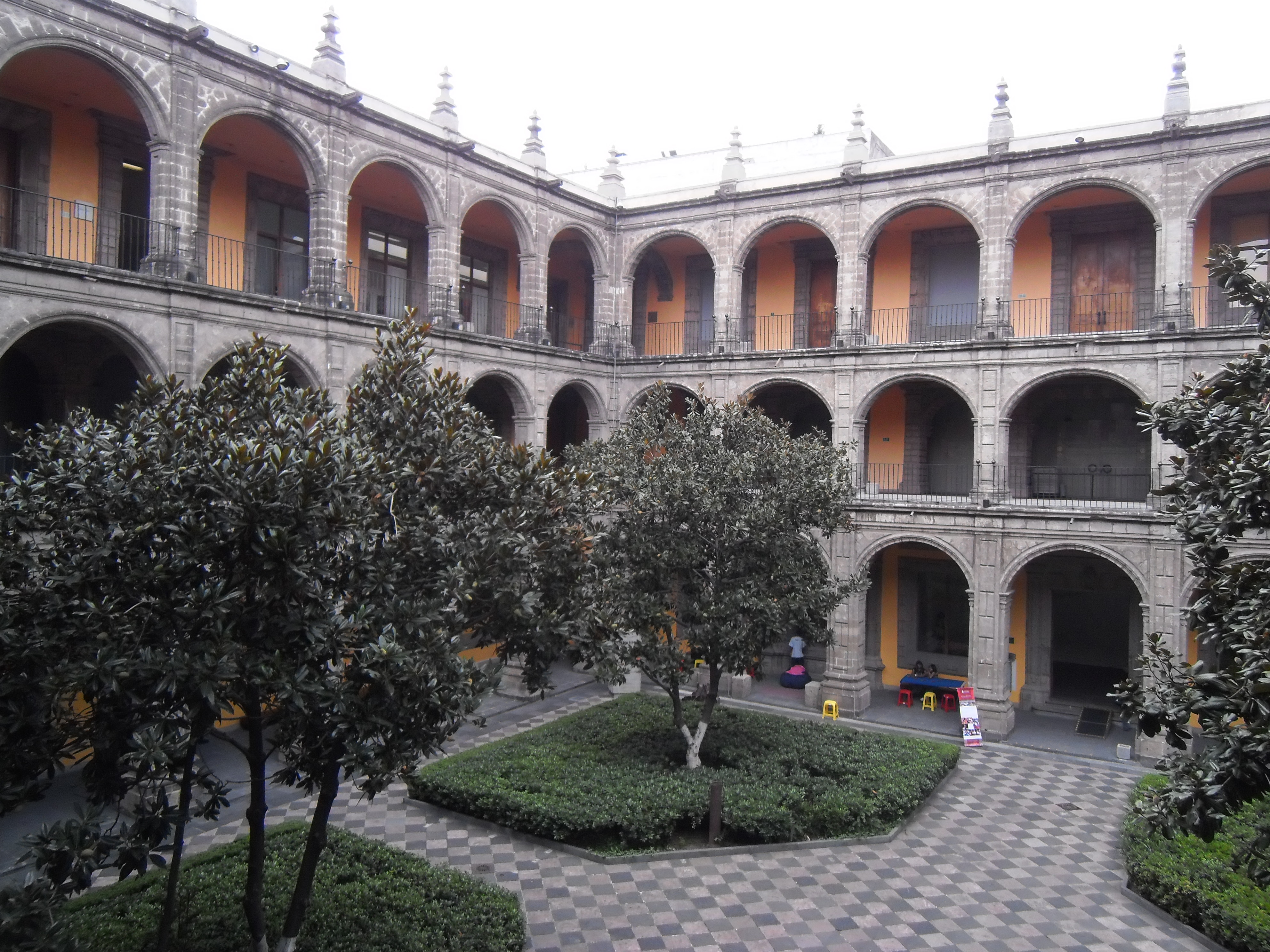 Main courtyard patio, garden, and arcades of the Colegio Grande section of Colegio de San Ildefonso — in the historic center of México City.